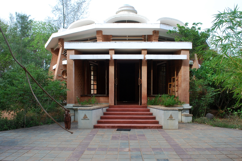 Vérité Integral Learning Centre at Auroville